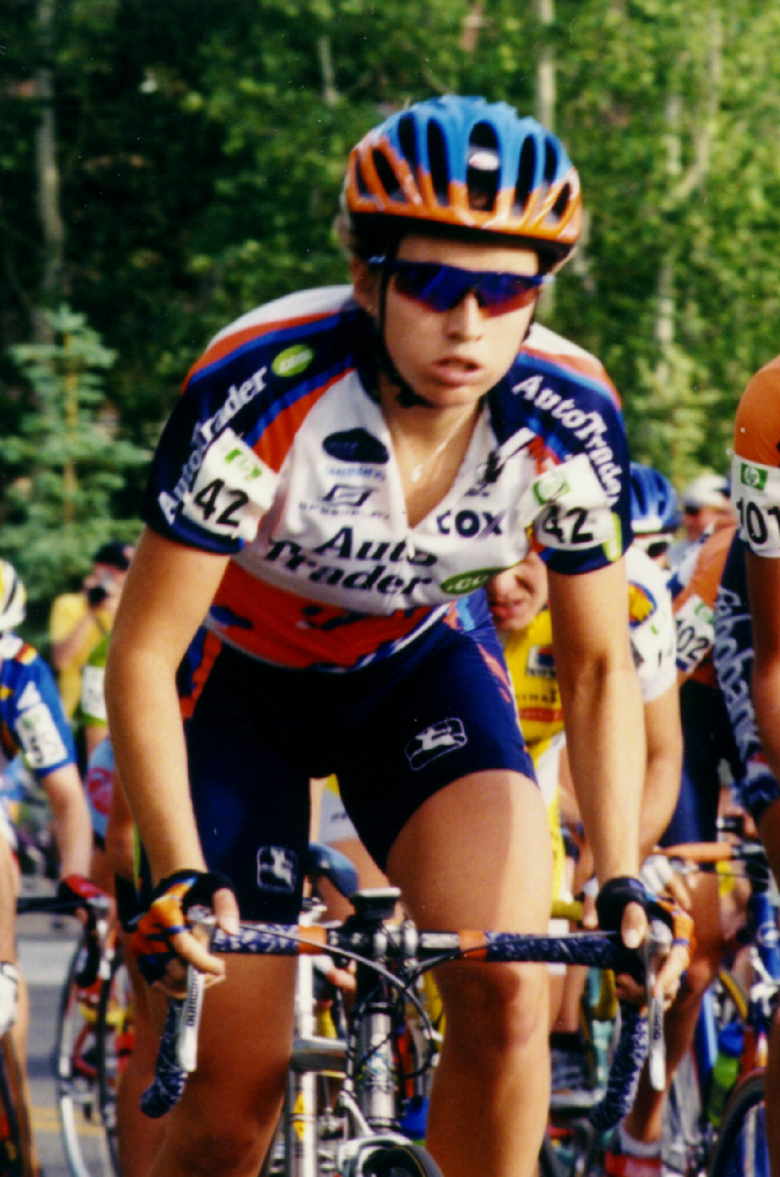 Sarah Ulmer climbs up the hill during the 19-lap Elkhorn Resort Circuit Race in Ketchum, Idaho. Photo was taken during the 2001 Women's Challenge bicycle stage race.